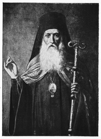 Ecumenical Patriarch Cyril V - National Documentation Center, National Charity Branch Calendar, Constantinople 1907, p. 211